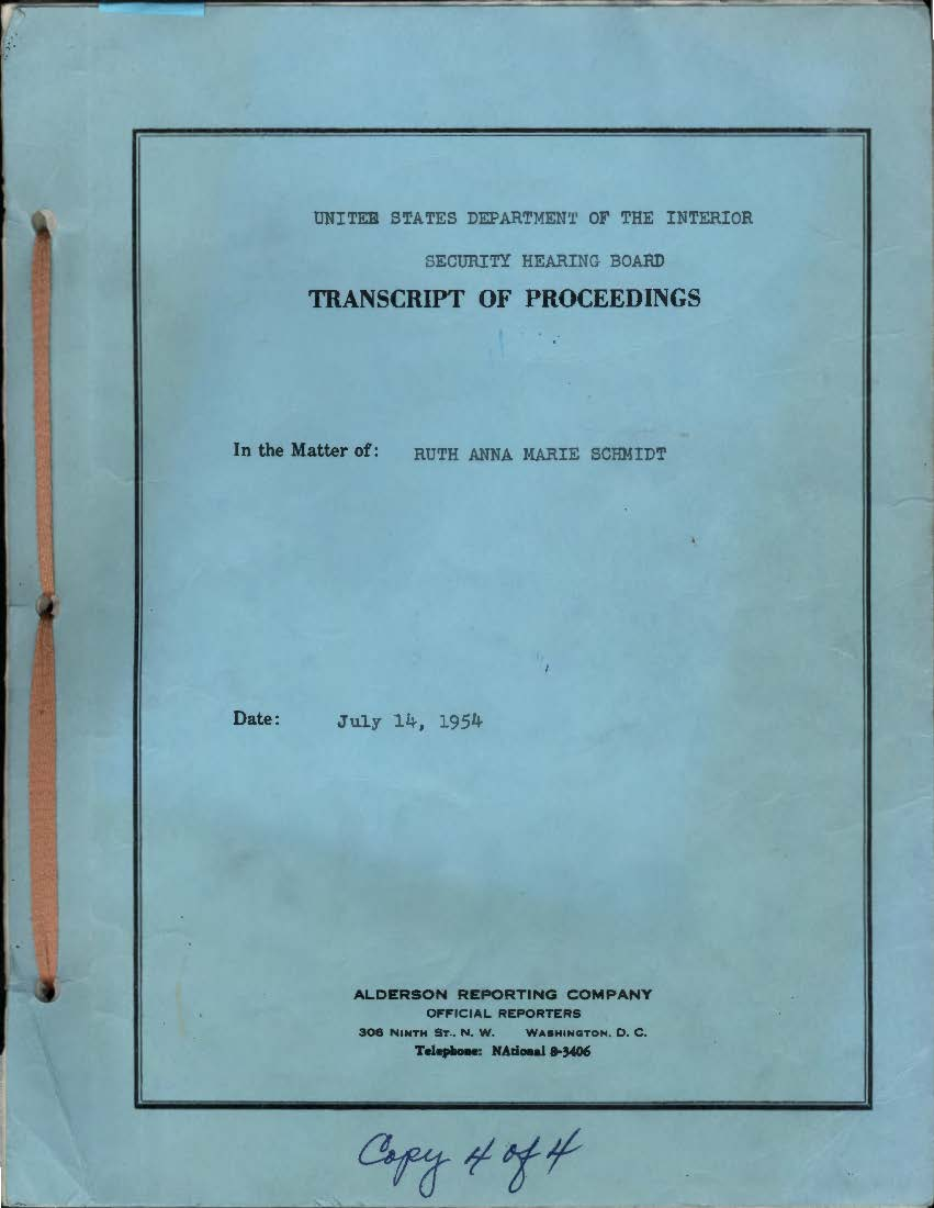 Cover sheet of the US Department of the Interior Security Hearing Board transcript of proceedings against Ruth Anna Marie Schmidt, July 14 1954